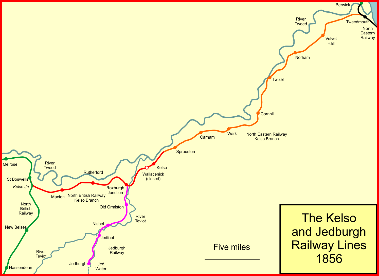 System map of the Kelso and Jedburgh railway branch lines in Scotland in 1856